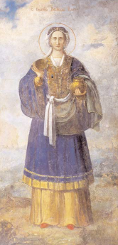 Olha of Kyiv.Сhapel of Ivan Mazepa.